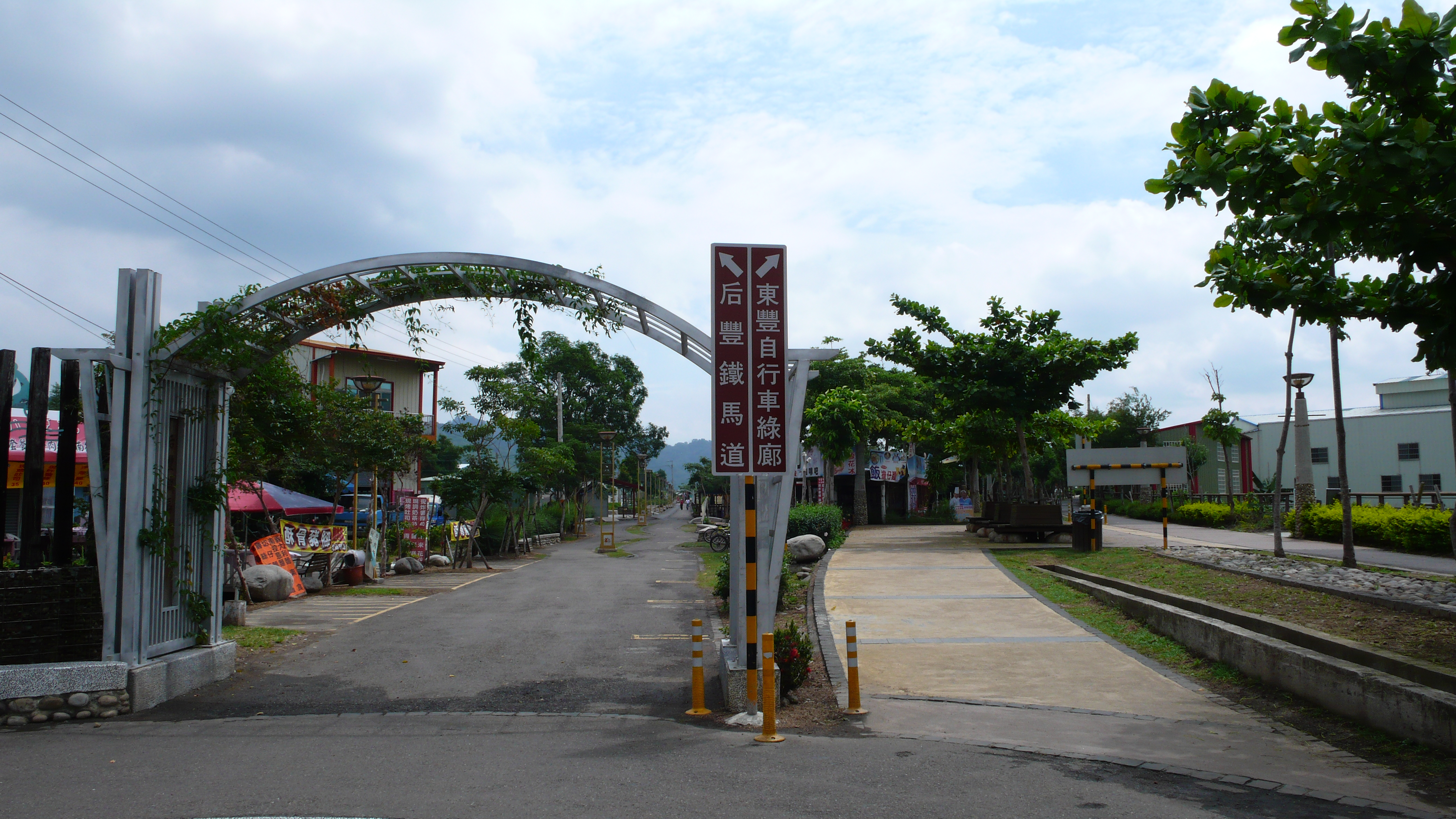 The entrance of Dong-Fong Bikeway and How-Li Bikeway in Taichung County,Taiwan